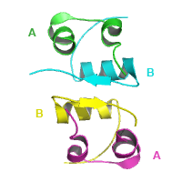 Crystal Structure of Pig Insulin